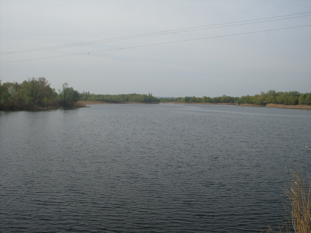 Vilshanka River, tributaries of the Dnieper River, Ukraine, Cherkasy region